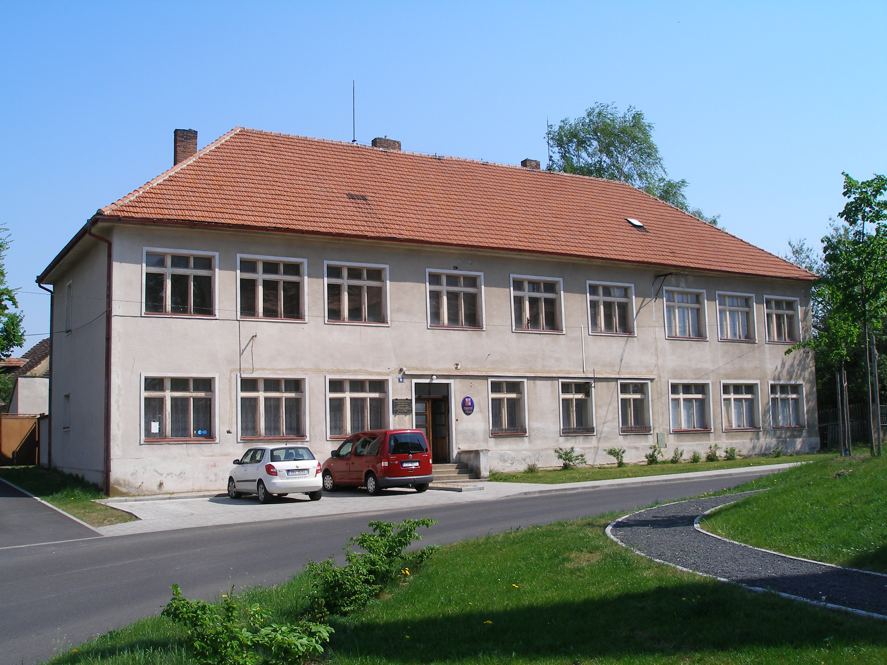 Černouček former school, now the municipal office.